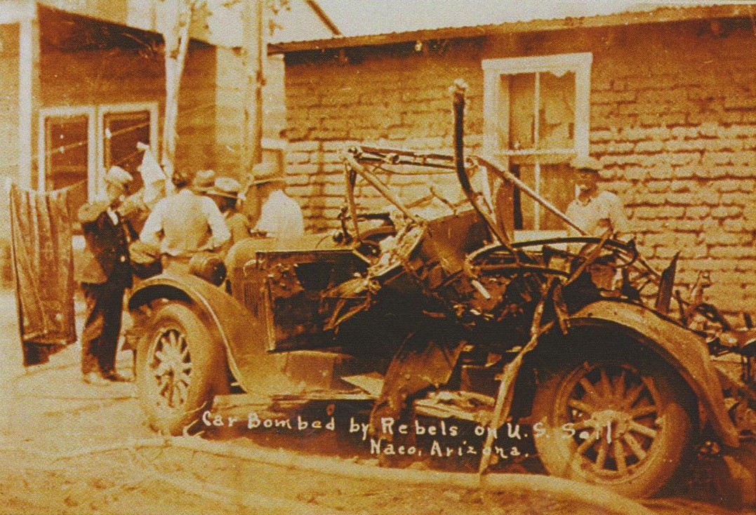 A Dodge touring car destroyed by Patrick Murphy in Naco, Arizona, in April 1929.Scan from page 21 of 'Arizona Lens, Lyrics and Lore' by Dolan Ellis and Sam Lowe (Inkwell Productions, 2014) ISBN: 9781939625601